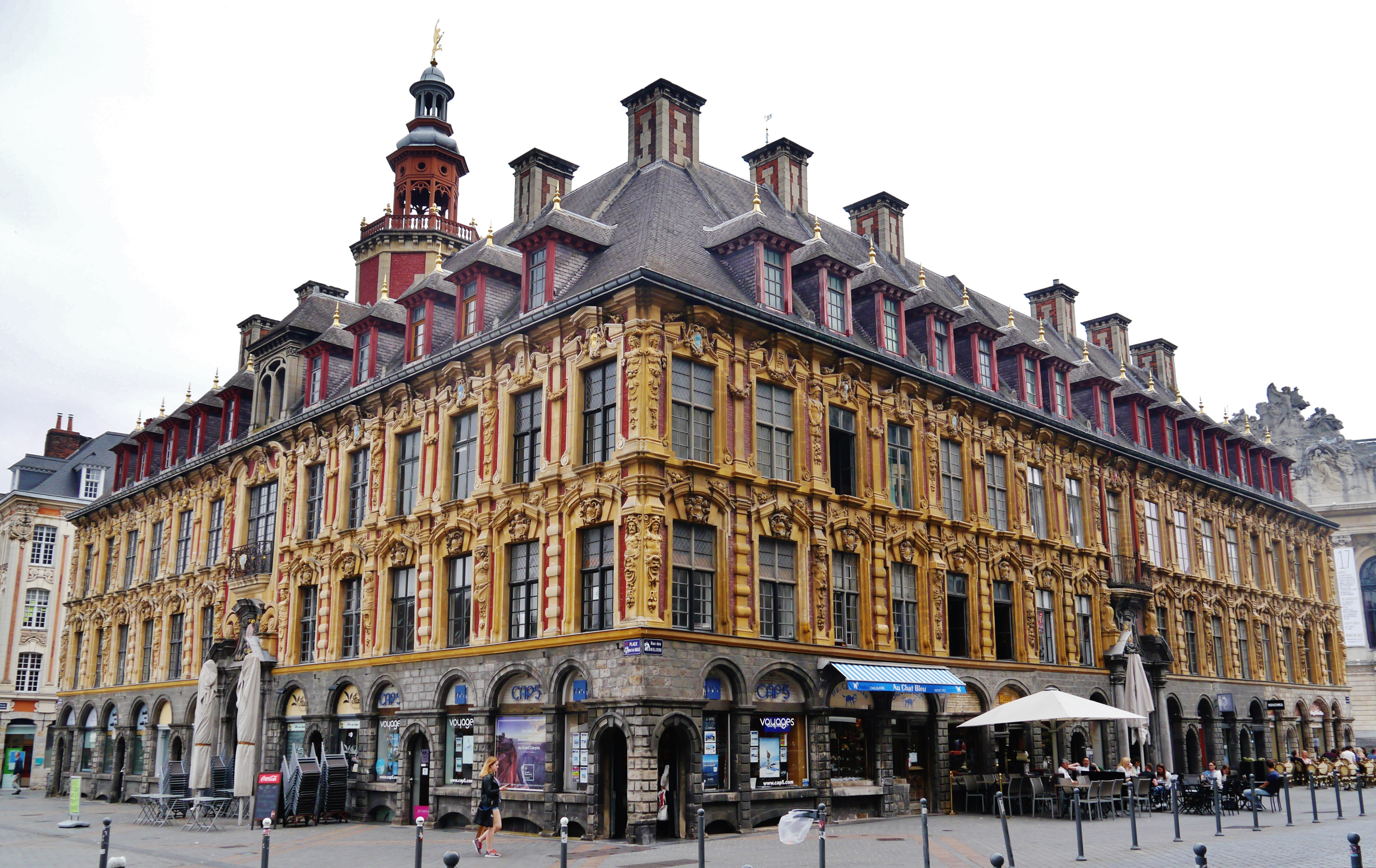 Old Stock Exchange, Lille, Département of Nord, Region of Upper France, (former Nord-Pas-de-Calais), France